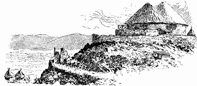 Etching of the House of Ras Alula, now in Asmara, Eritrea. Originally published in J.T. Bent, The Sacred City of the Ethiopians (London, 1896)